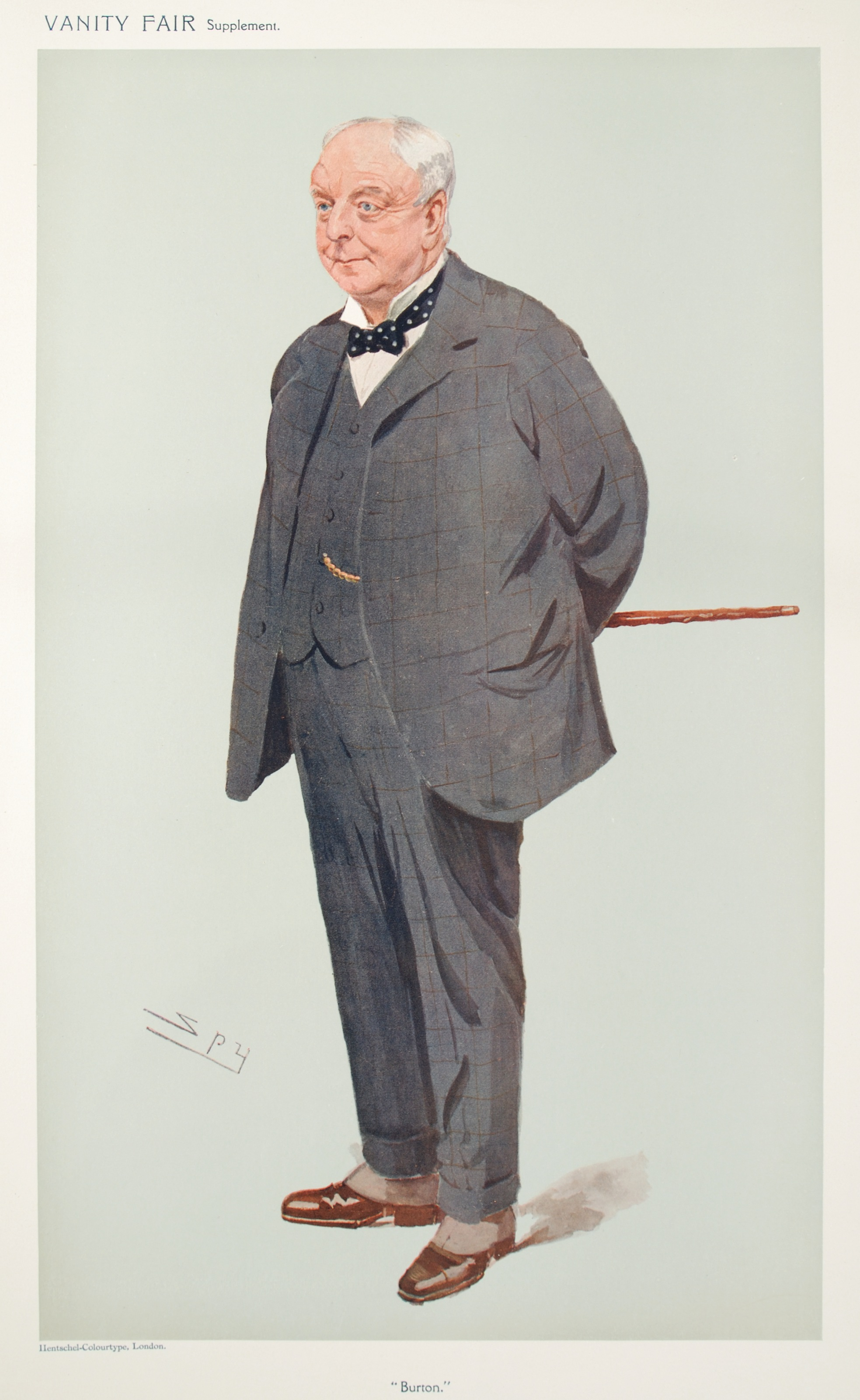 Caricature of Michael Bass, 1st Baron Burton. Caption read "Burton".